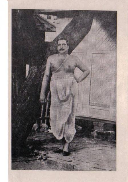 Sree Sree Thakur